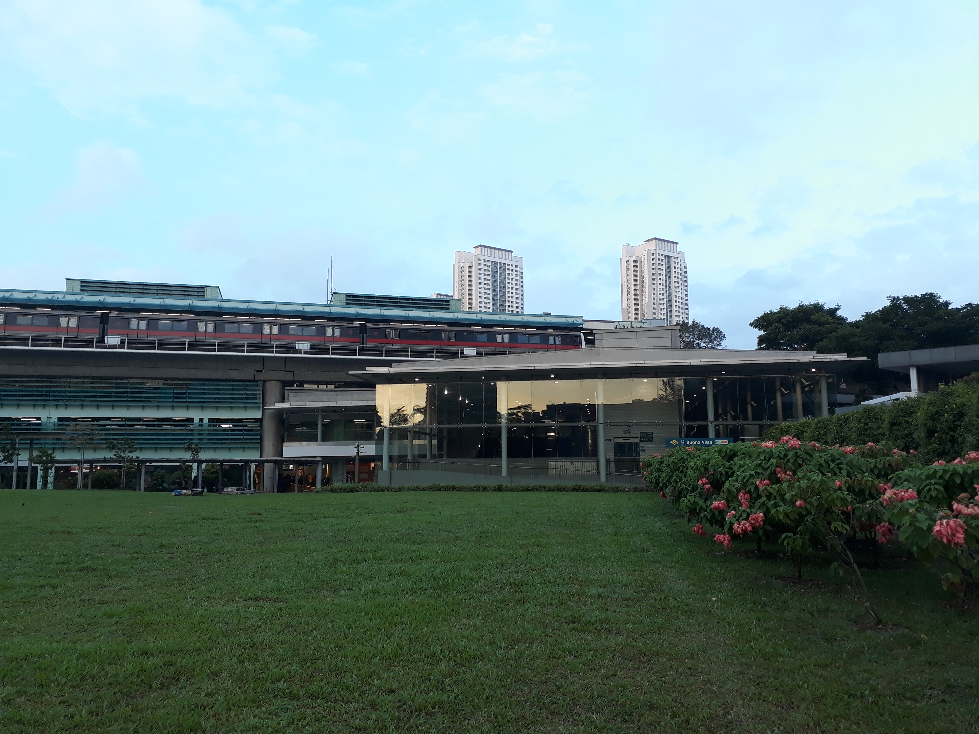 Buona Vista MRT station